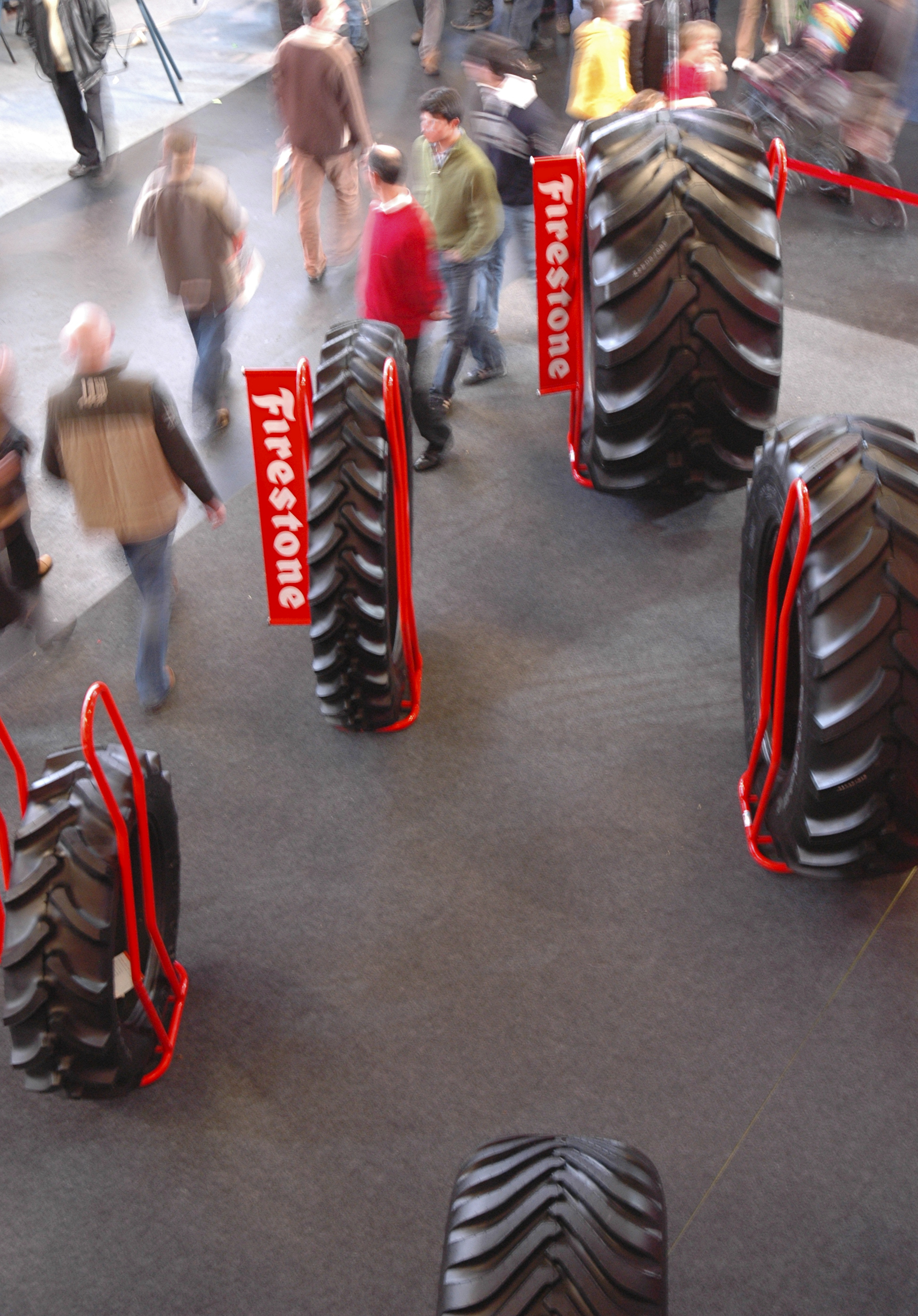 Different types of tyres for tractors (or other agricultural machinery) presented by Firestone (Bridgestone NV/SA) on Agriflanders 2007